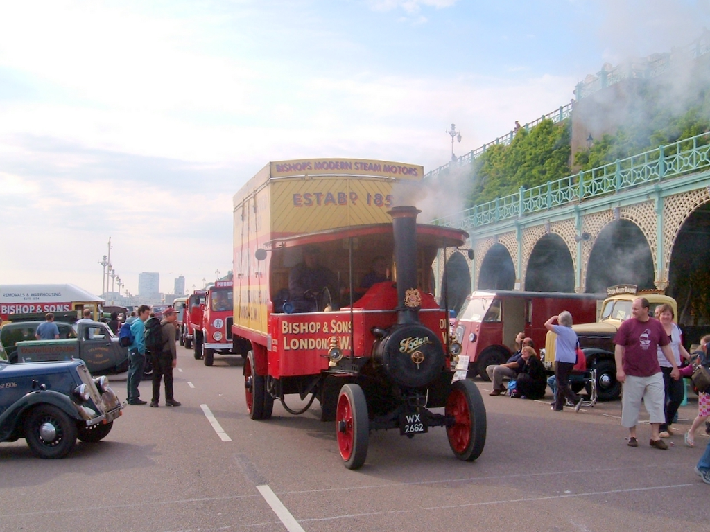 Foden class C steam lorry, 1930 Foden 5 ton 'C Type' Wagon - Margaret Works No. 13624 - Reg. No. WX 2682.